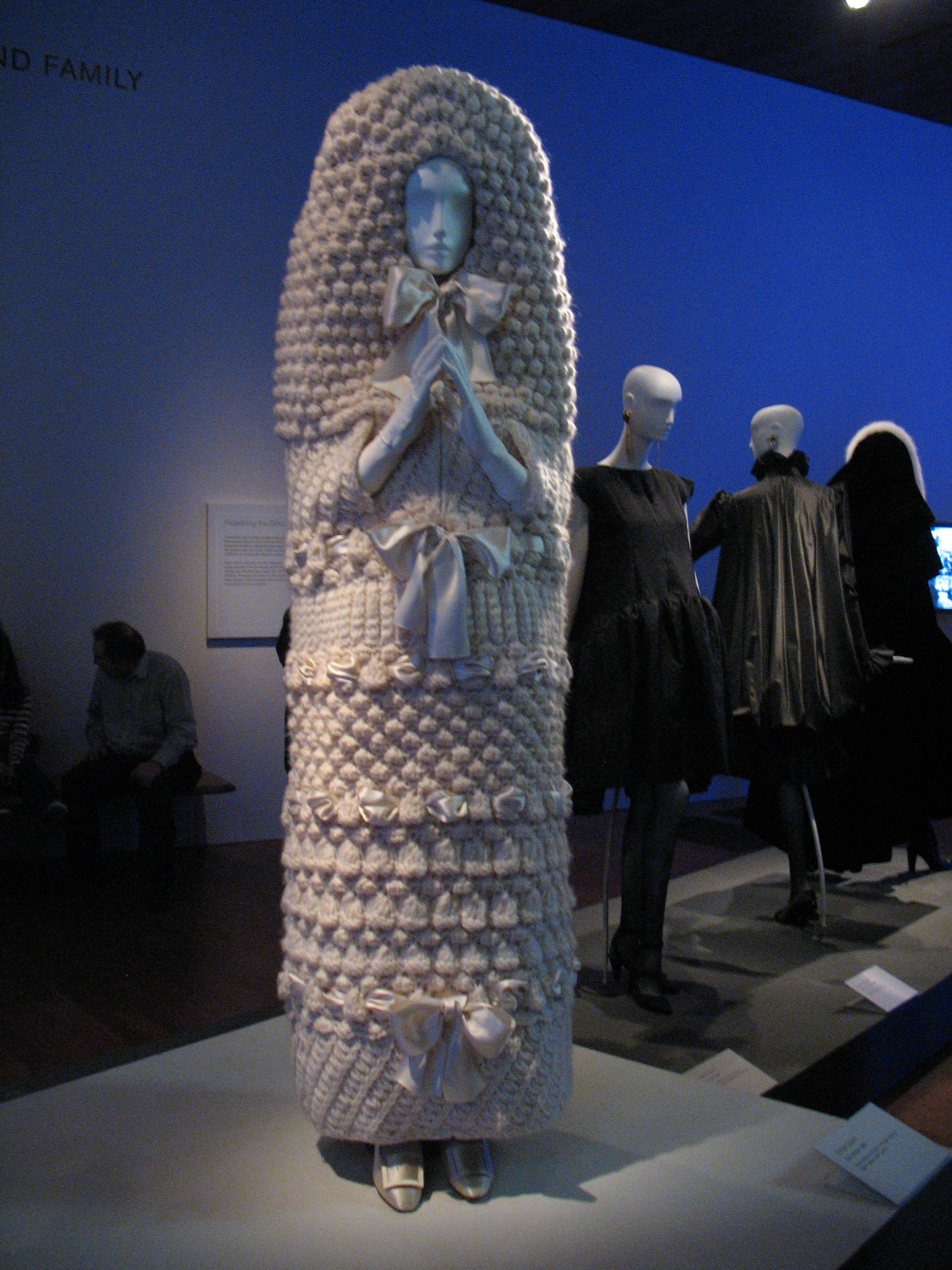 1965 Yves Saint Laurent knitted wedding dress ("le coq tricoté") at deYoung Museum in San Francisco